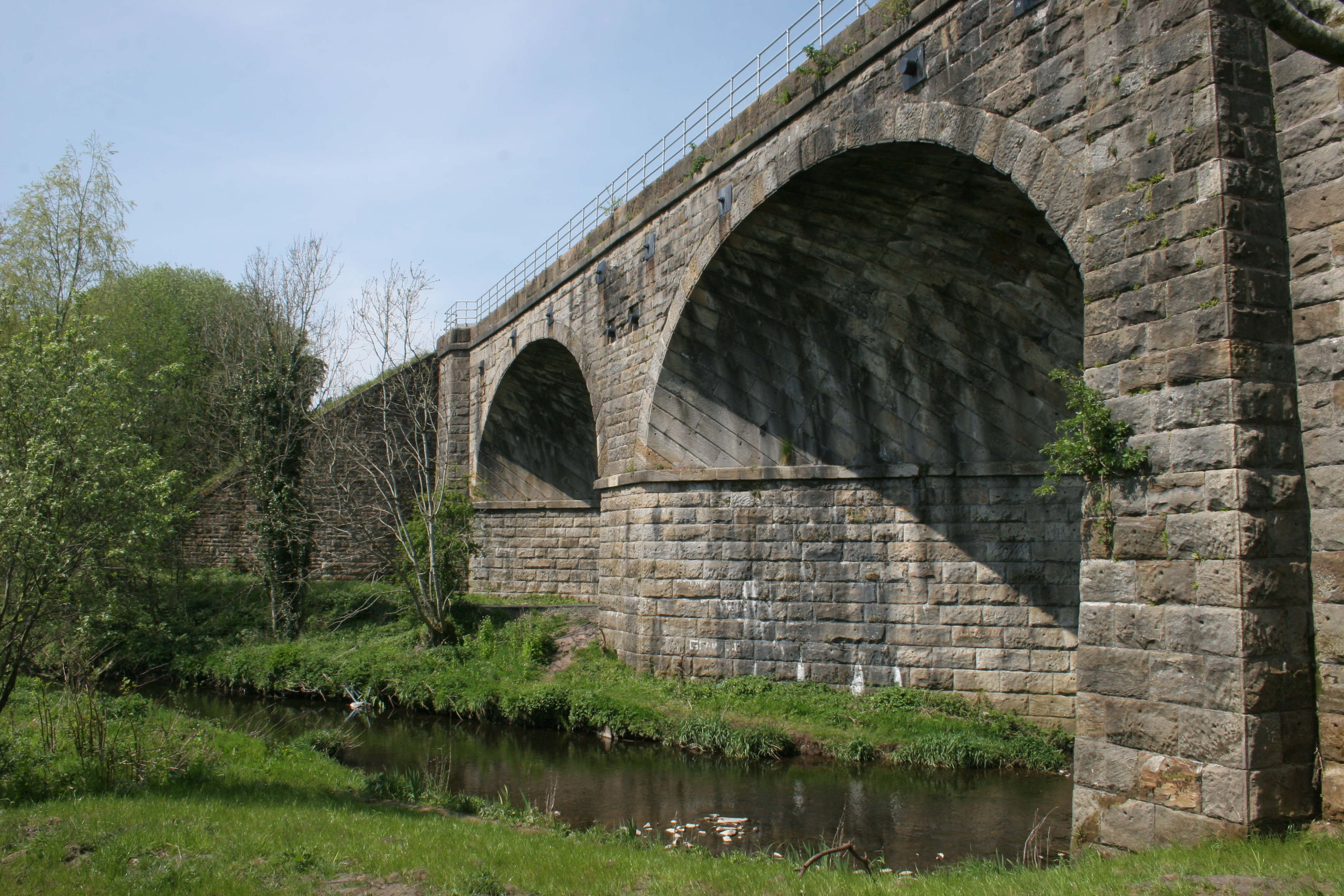 Levern Water Near Barrhead Levern Water passes under Glasgow to Kilmarnock railway line